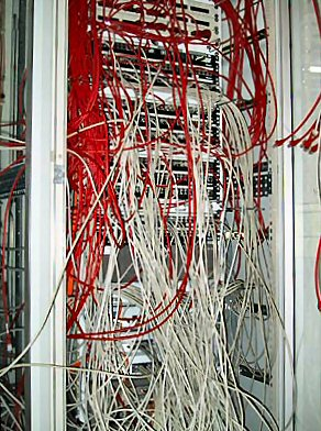 An overgrown, badly structured patch panel File name: 102-0287_IMG.JPG Date of recording: June 2001